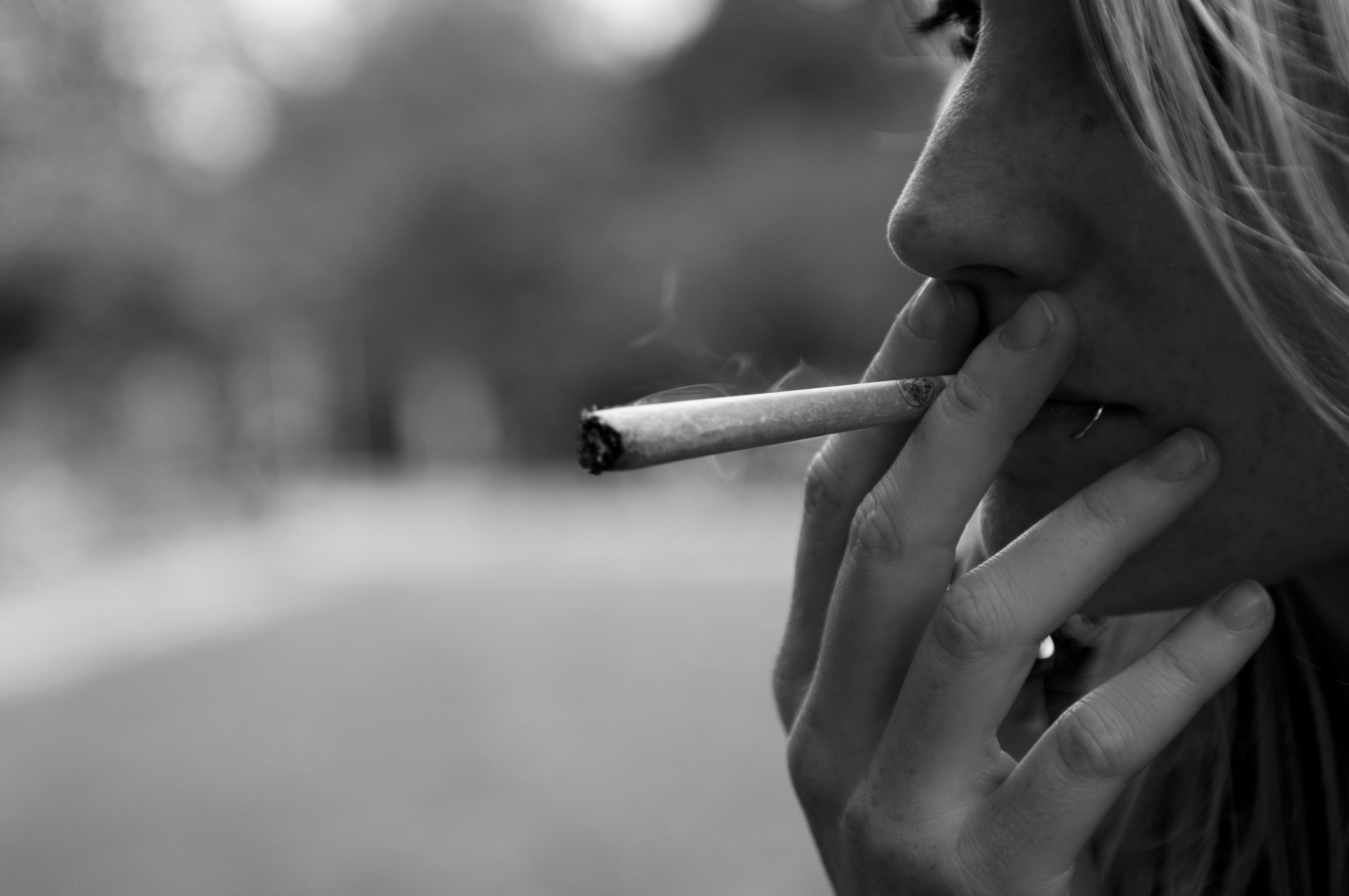 A young woman smoking a joint (cannabis cigarette)